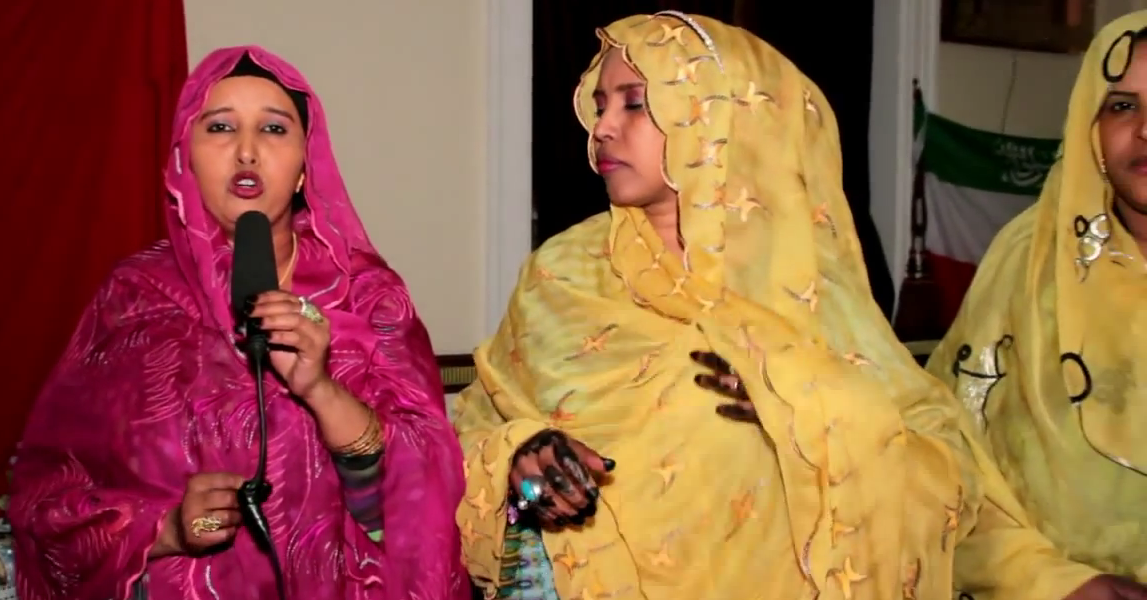 Somali women at a Somali community event.